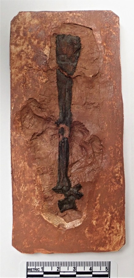 Xyrospondylus neural spine